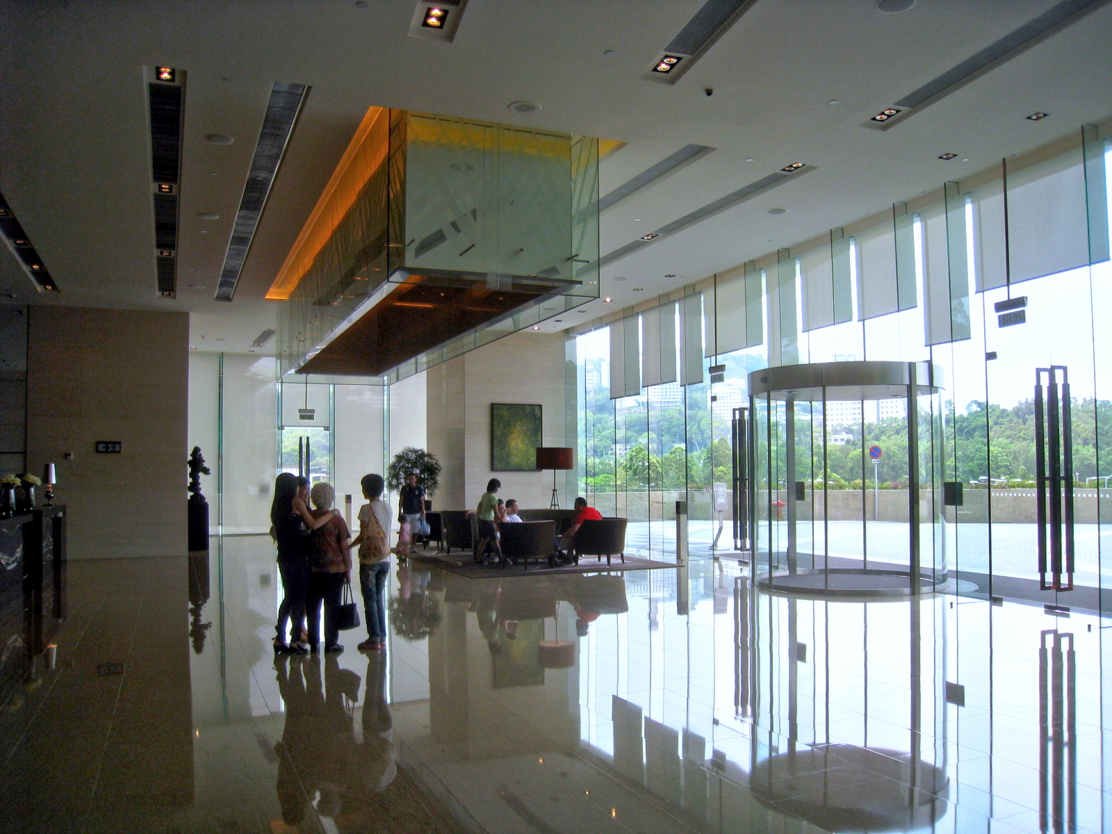 Hyatt Regency Hong Kong Shatin Lobby 香港沙田凱悅酒店